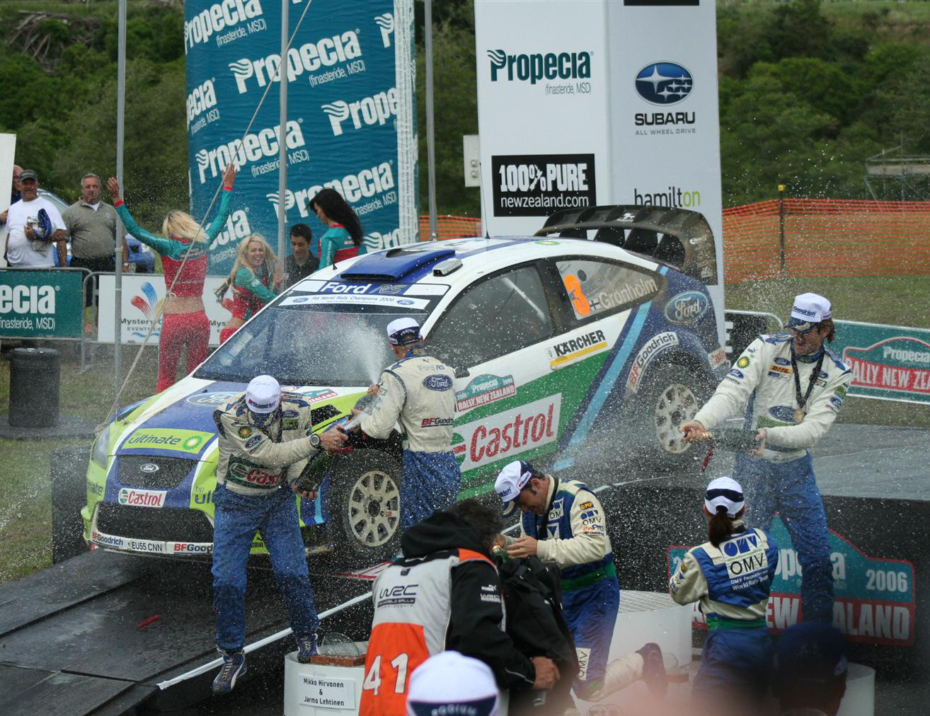 2006 Rally New Zealand post race celebration; Grönholm, Hirvonen, Stohl and their co-drivers.